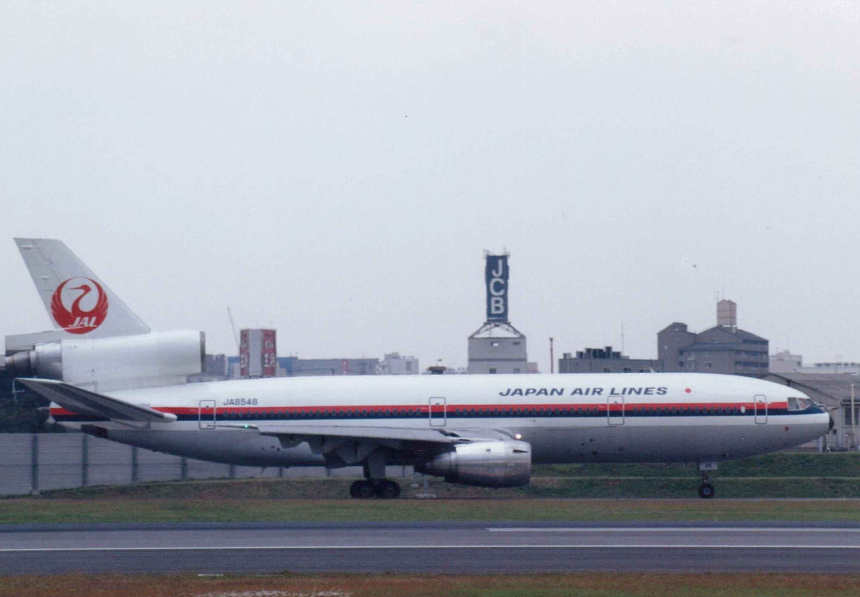 It is JAL which it photographed in Itami, Osaka Airport.